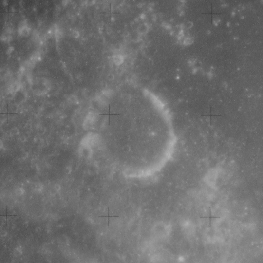 Lubbock, on the moon. Altitude 115 km, sun elevation 85 deg.